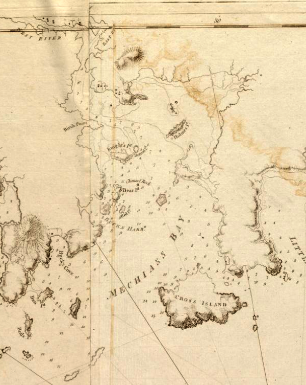 This is a detail of the source, which is a nautical chart captioned Coast of Maine from Moose Cove to Gouldsboro Bay. This detail shows only Machias Bay. The community of Machias is just visible at the top of the map.